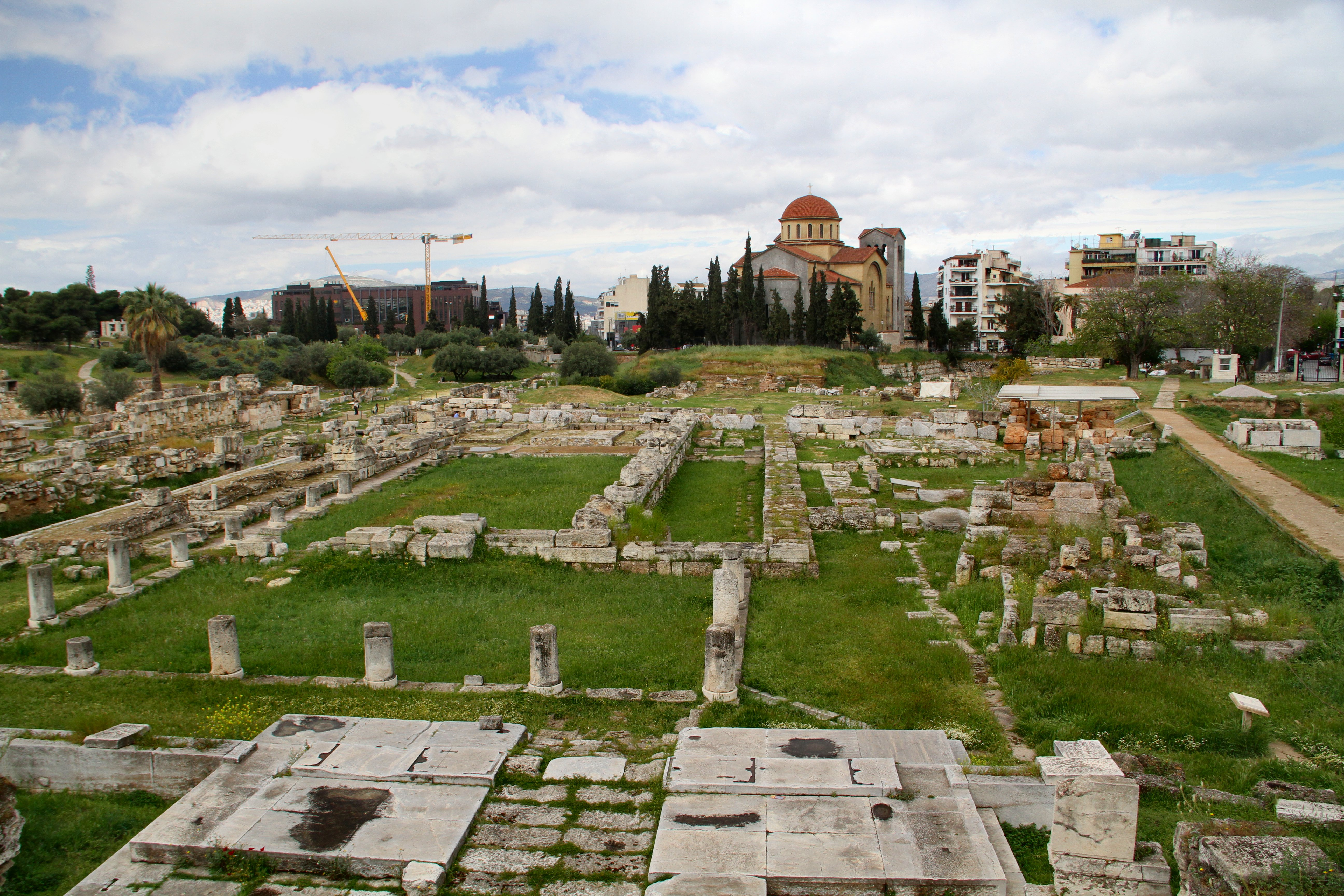 Kerameikos Archeological park. Taken at Athens, greece, April 2011